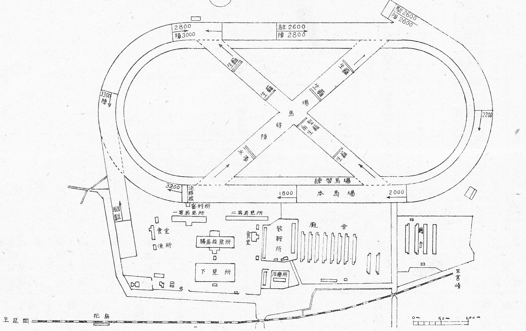 Miyazaki Racecourse(1940)